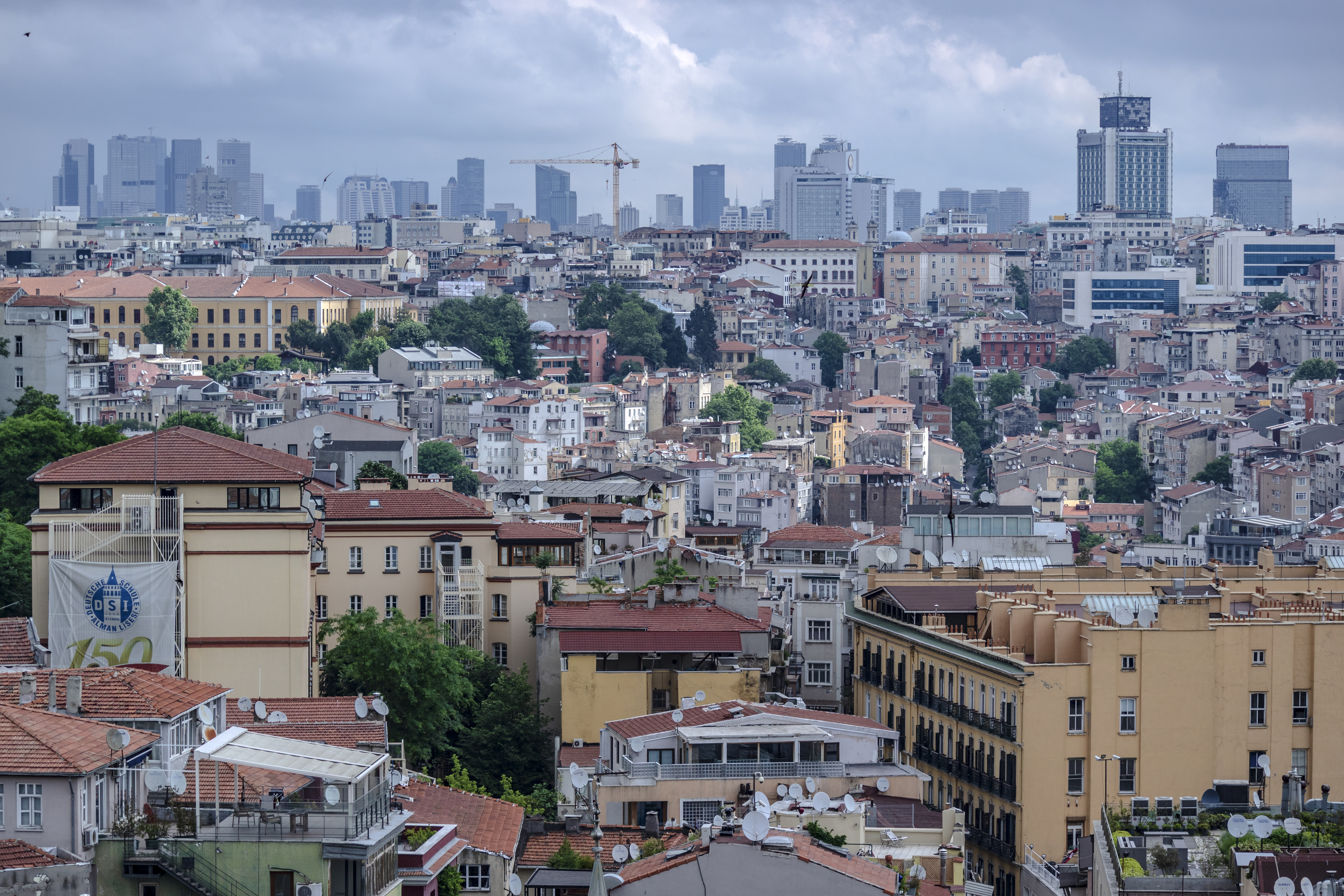 A metropolis is a large city or conurbation which is a significant economic, political, and cultural center for a country or region, and an important hub for regional or international connections, commerce, and communications.